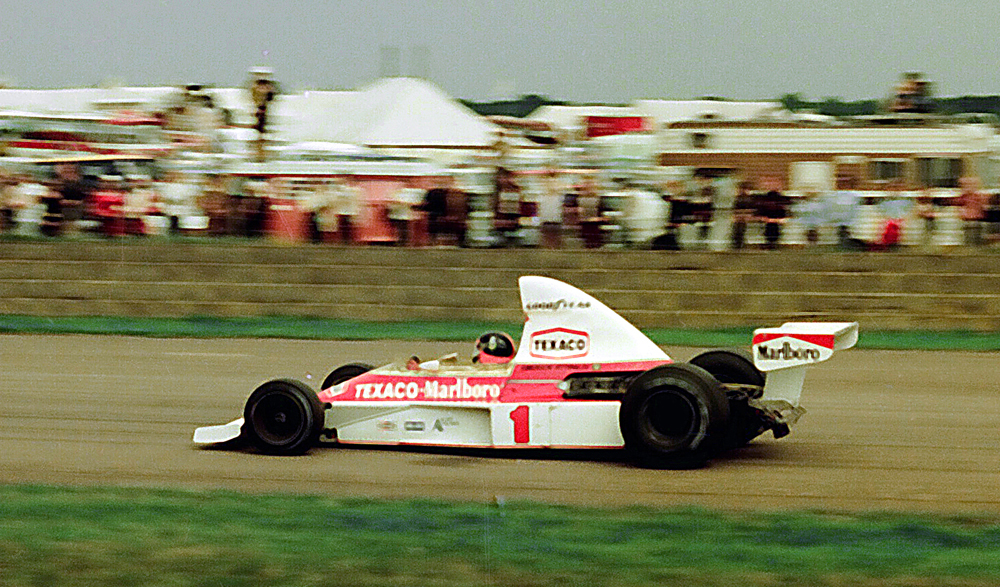 John Player Grand Prix 1975